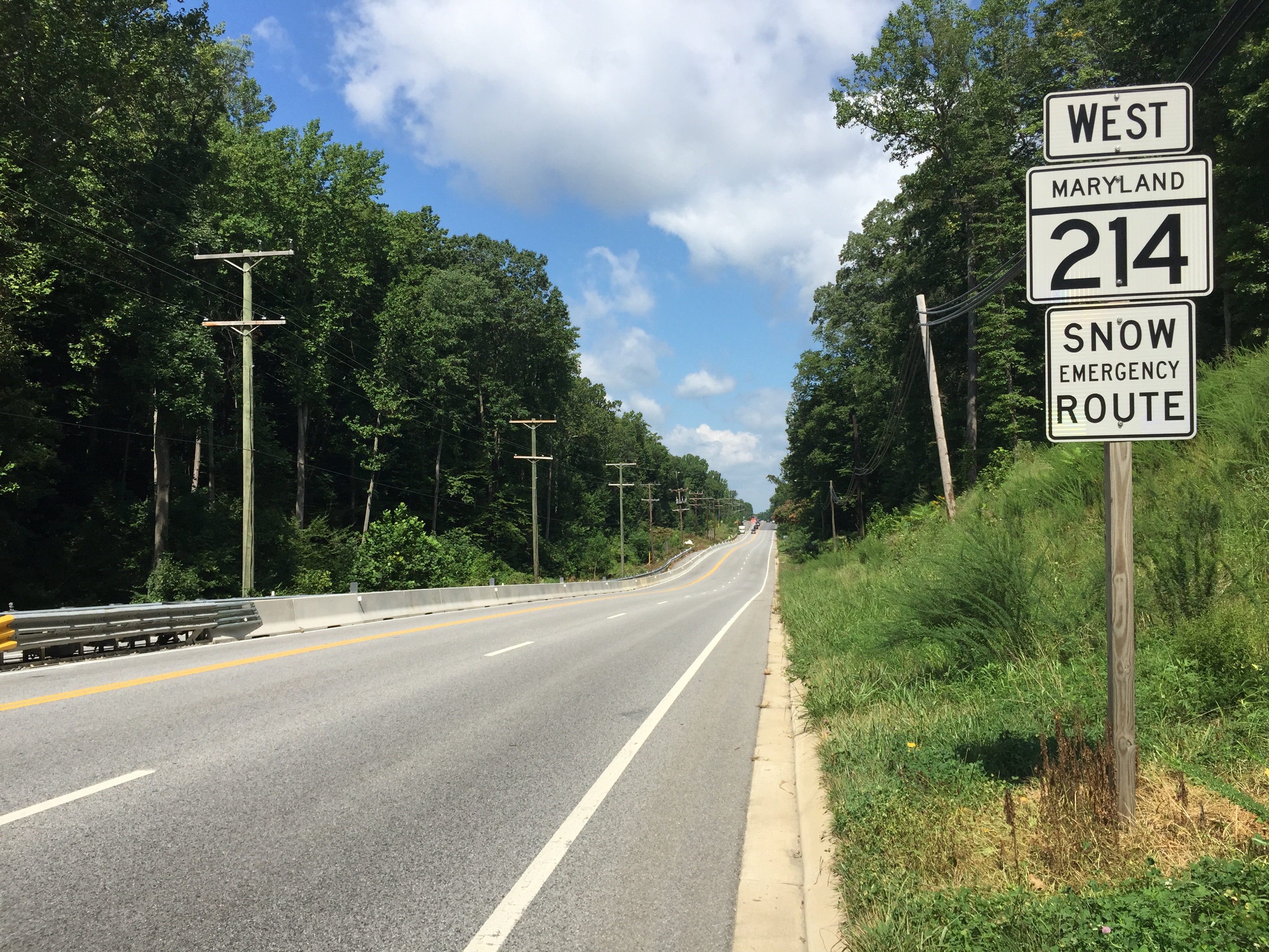 View west along Maryland State Route 214 (Central Avenue) at Maryland State Route 468 (Muddy Creek Road) in Mayo, Anne Arundel County, Maryland